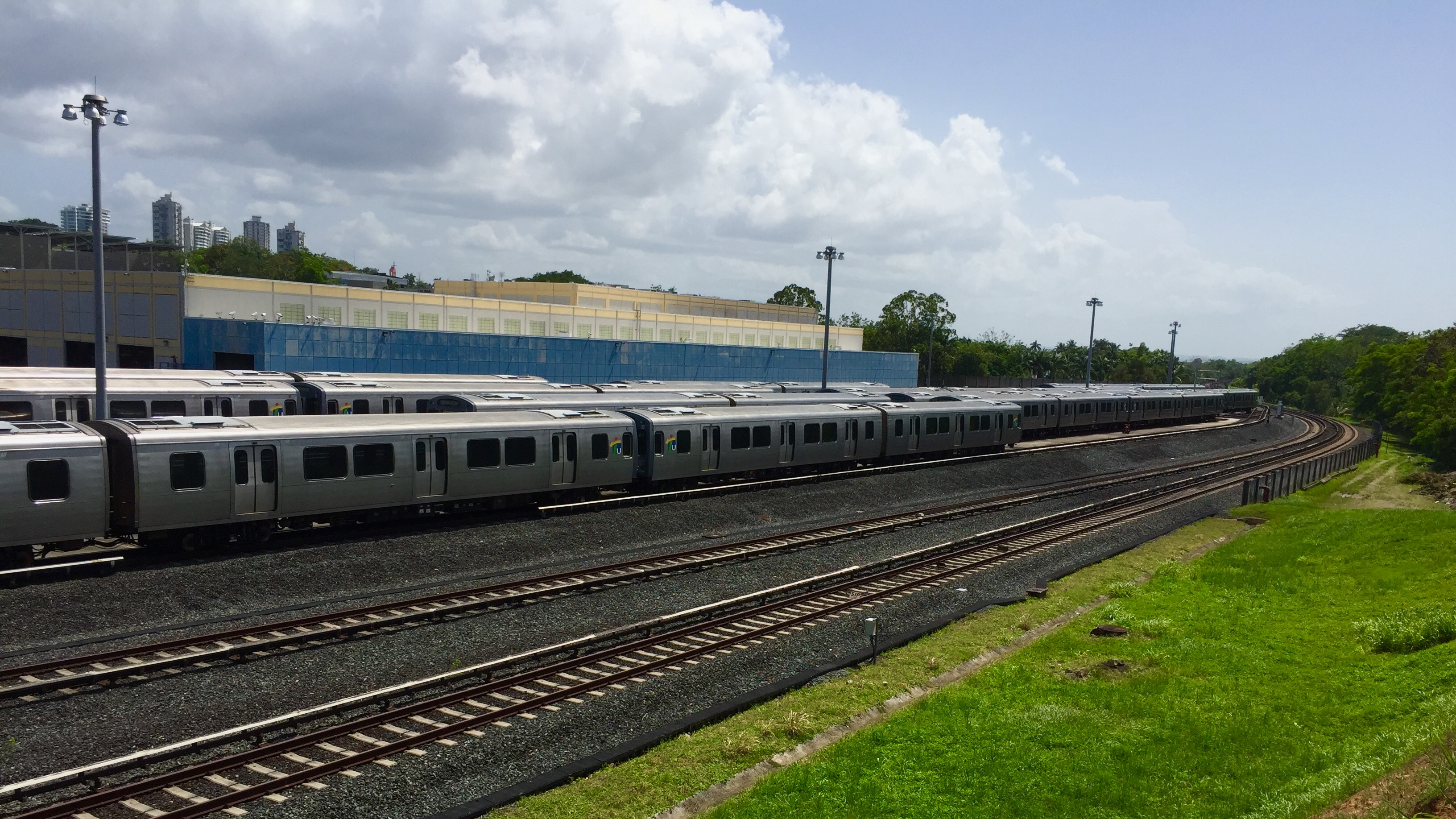 Tren Urbano Yards